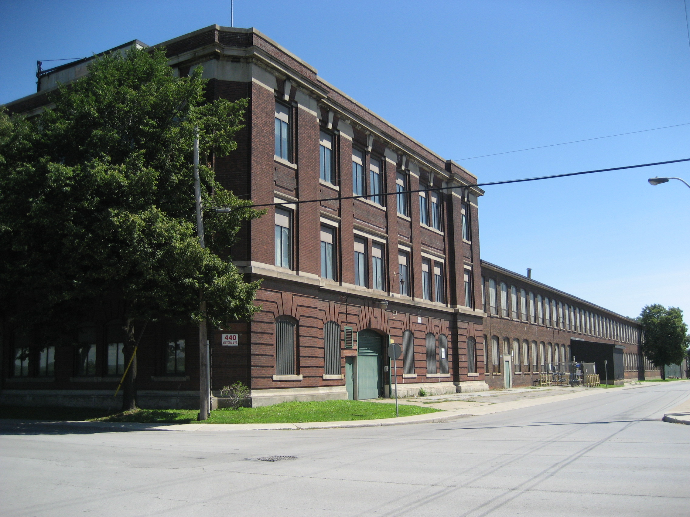 Old Otis Elevator/ Studabaker plant building, Victoria Avenue North, Hamilton, Canada.